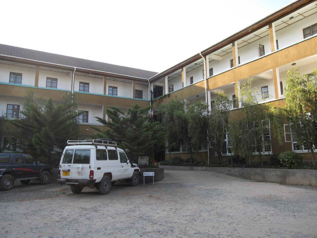 Sumbawanga Moravian Conference Centre, Tanzania